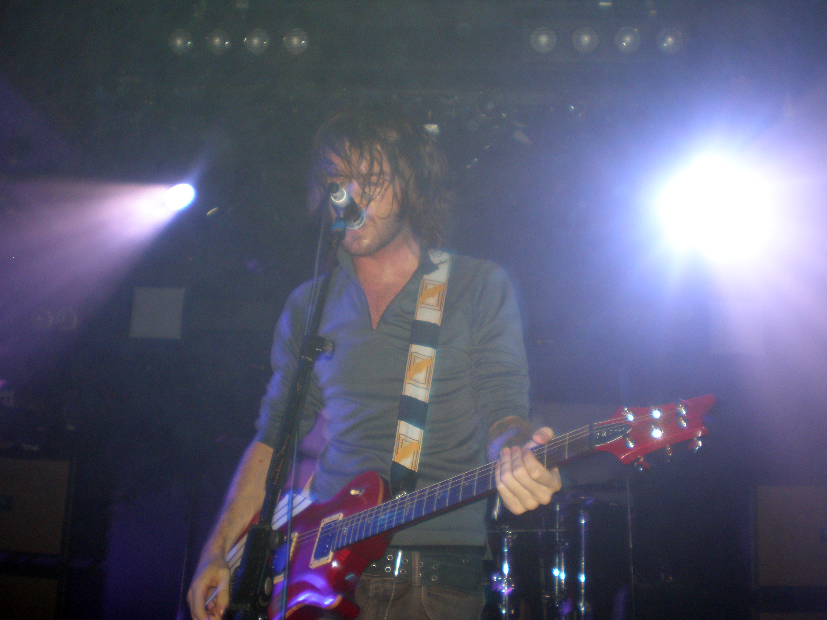 Elliot minor live in Norwich